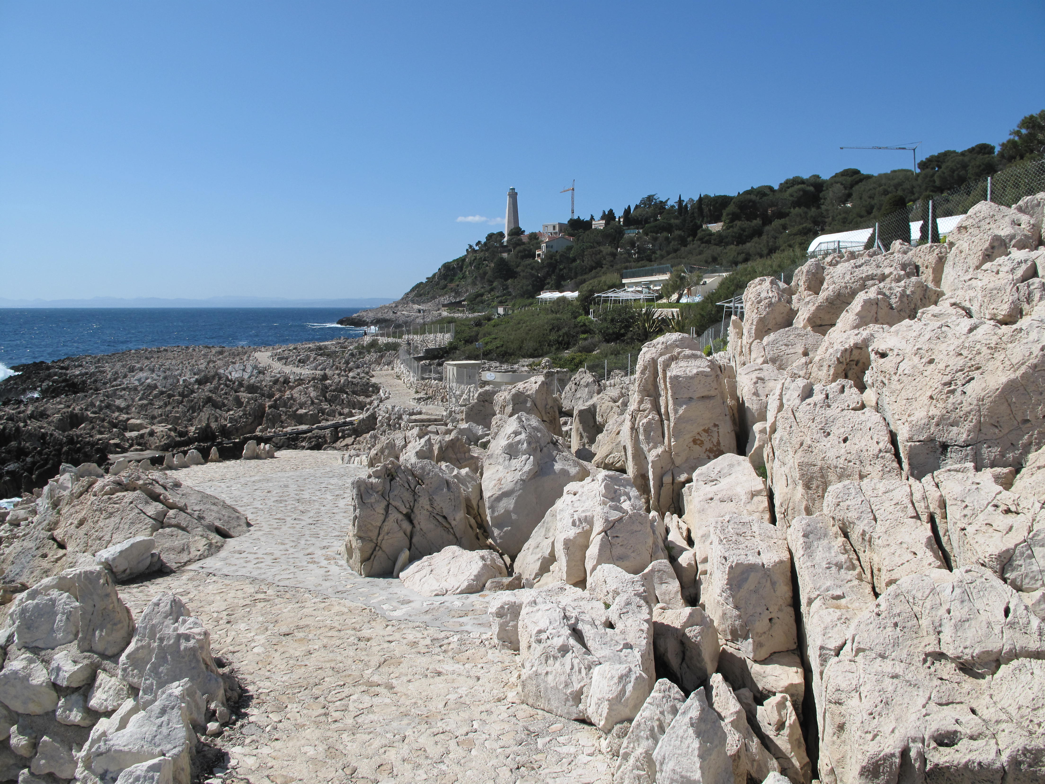 Cap-Ferrat lighthouse from east